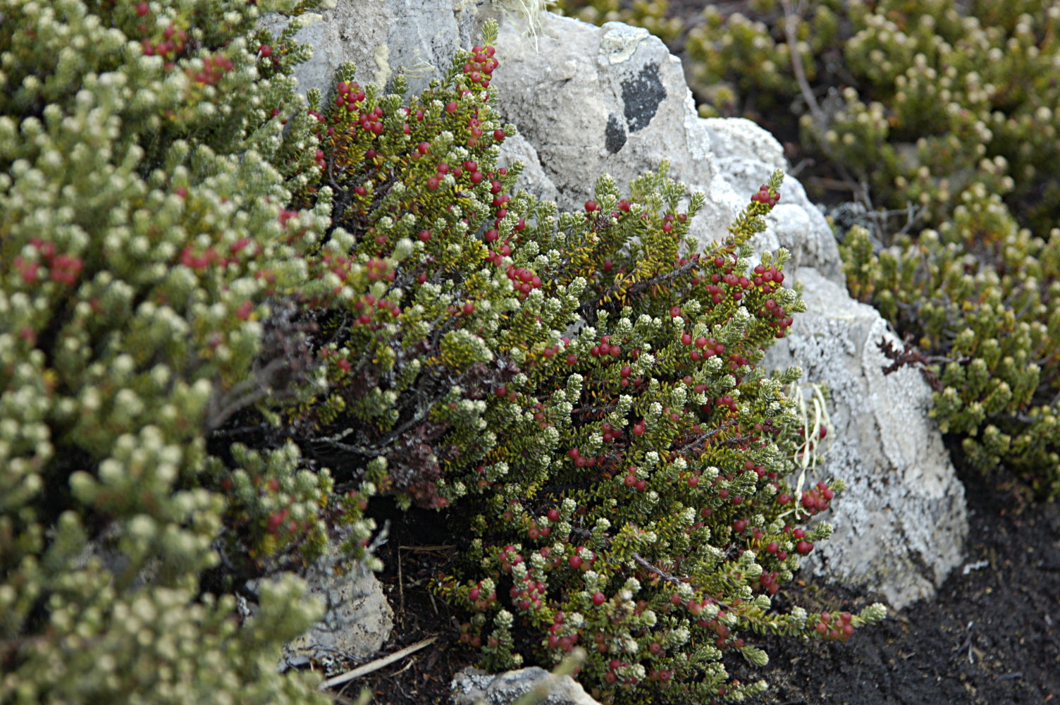 Red Crowberry nearby Stanley, Falkland Islands, coastal habitat, cliff